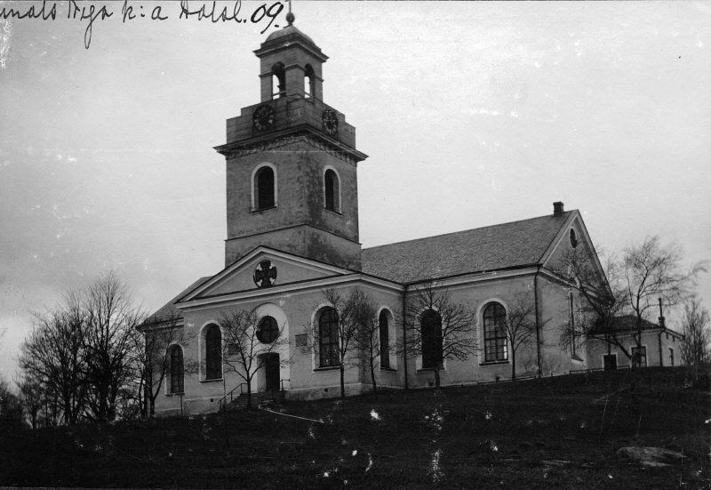 Åmåls kyrka 1909